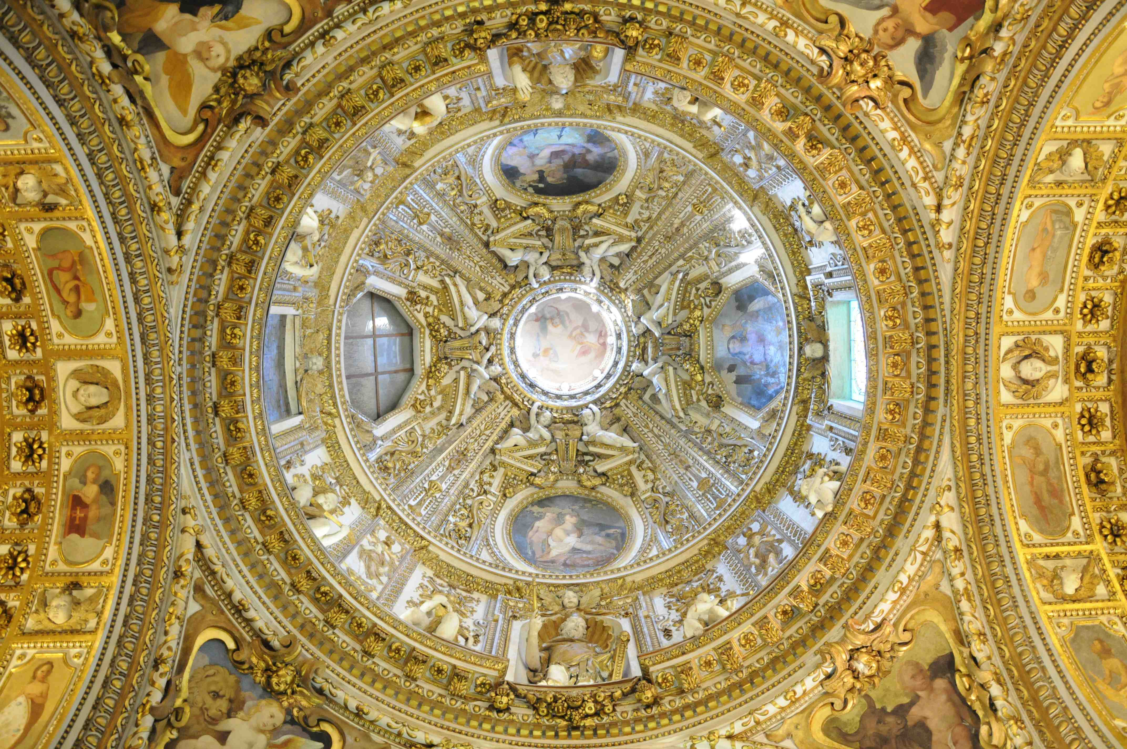 Dome of Capella del Sacramento in Santa Maria Cathedral - Rieti (Lazio, Italy